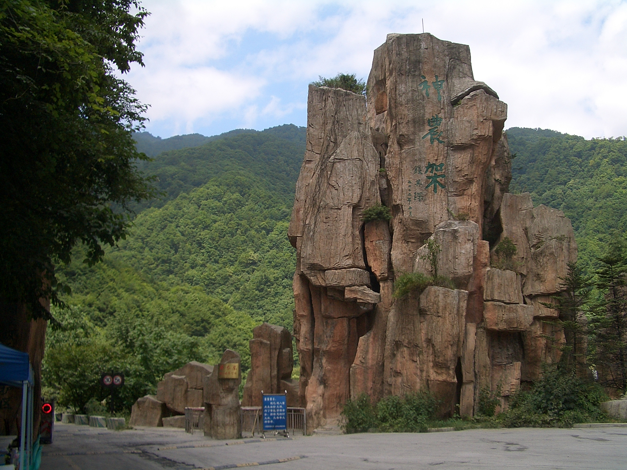 Yazikou Junction: the entry way to Shennongia National Park (a branch road from G209)